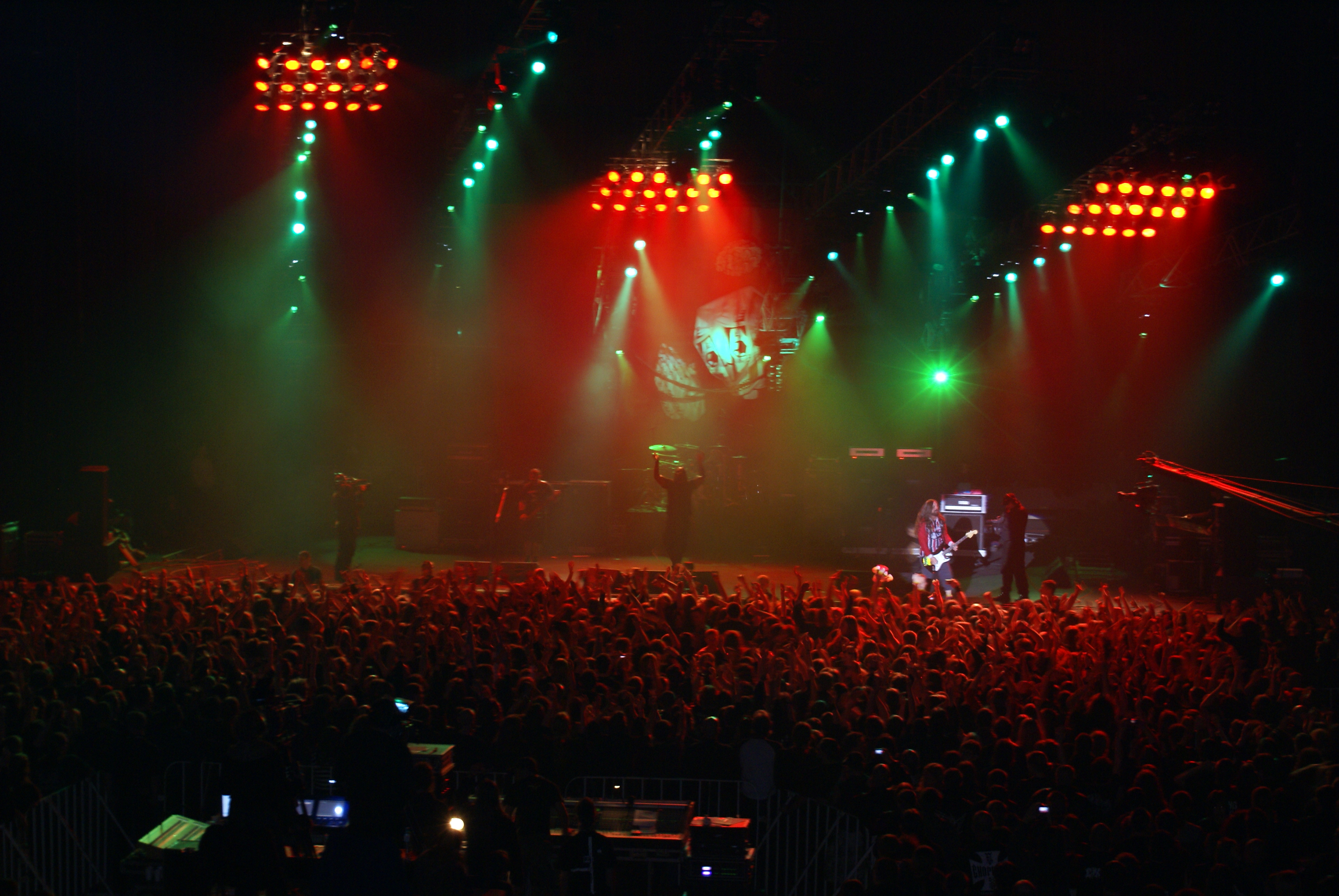 Metal band Sepultura during Metalmania 2007 festival